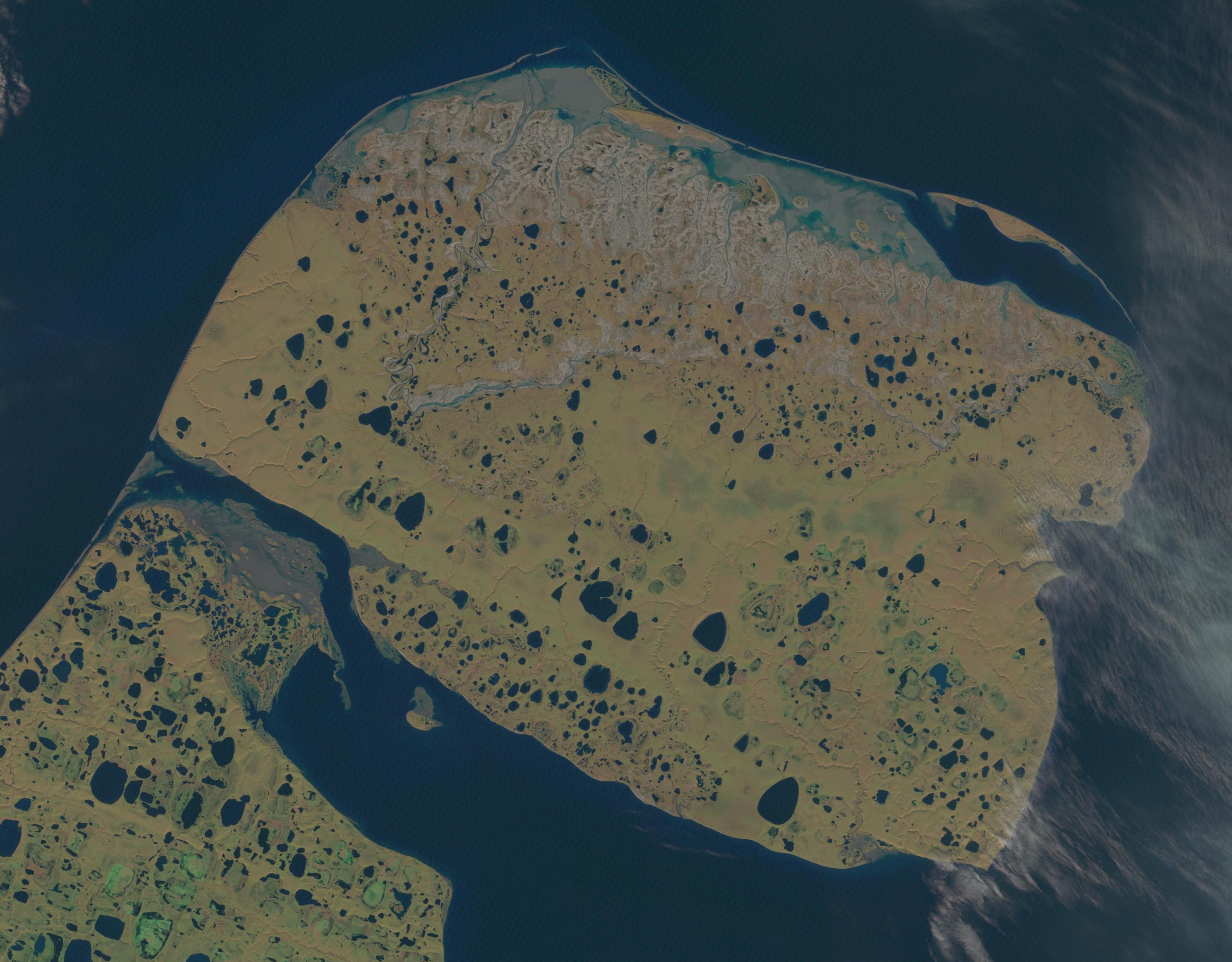 Ayon Island on the coast of Chukotka